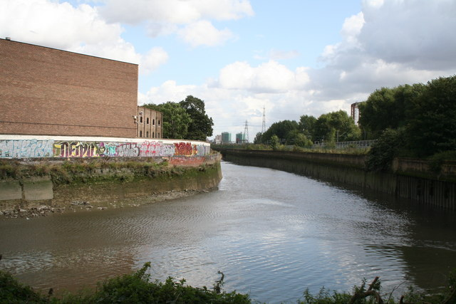 Abbey Creek, one of the Bow Back Rivers and a tidal estuary of River Lea, in eastern Greater London.